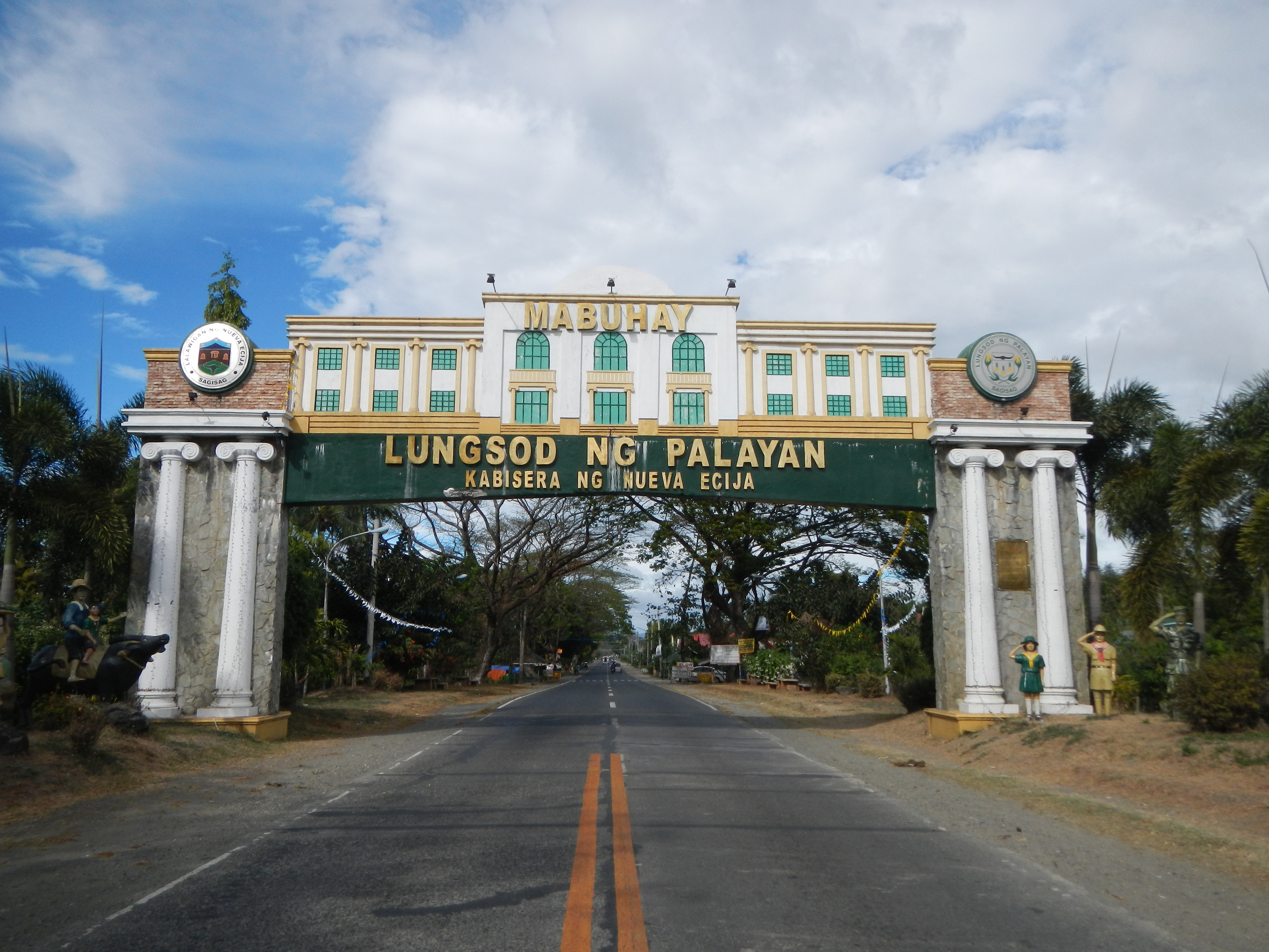 [1]Palayan The City of Palayan is a fifth class city in the province of Nueva Ecija, Philippines. According to the 2010 census, it has a population of 37,219 people.[2]Land Area: 101.40 km2 Zip Code: 3132 Coordinates: 15°31'3"N 121°5'41"E[3][4]Palayan City comes to life